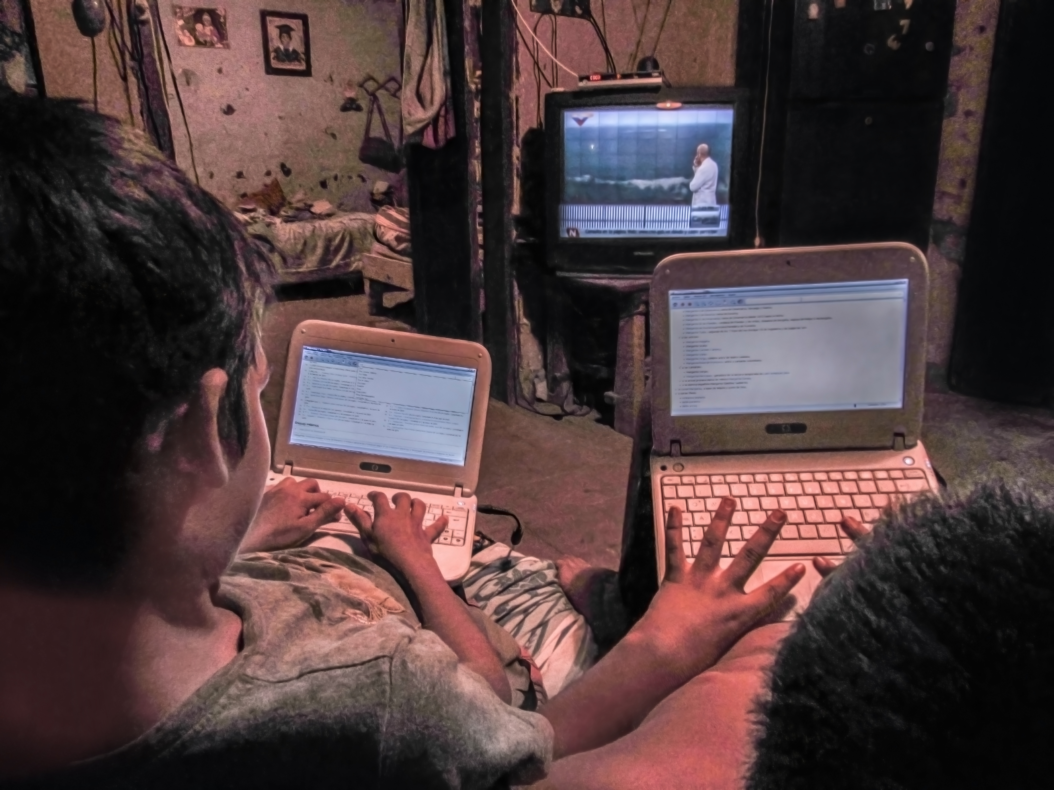 boys with Canaimitas and Kiwix